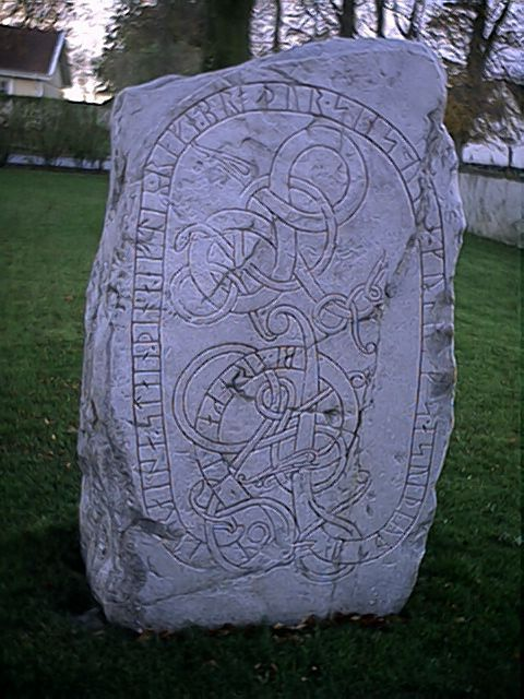 Rune stone from Skåne Signum: DR344 Author: Väsk